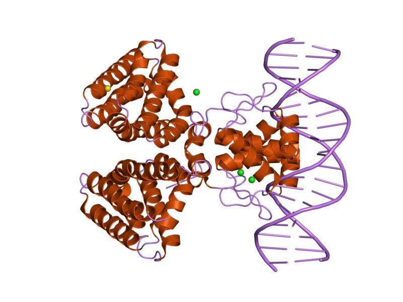 Cartoon representation of the molecular structure of protein registered with 1h9t code.